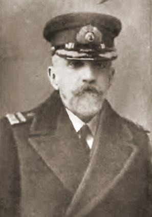 Wołodymyr Sawczenko-Bilski (1867-1955), counter admiral and commander in chief of the Ukrainian State Navy 1918